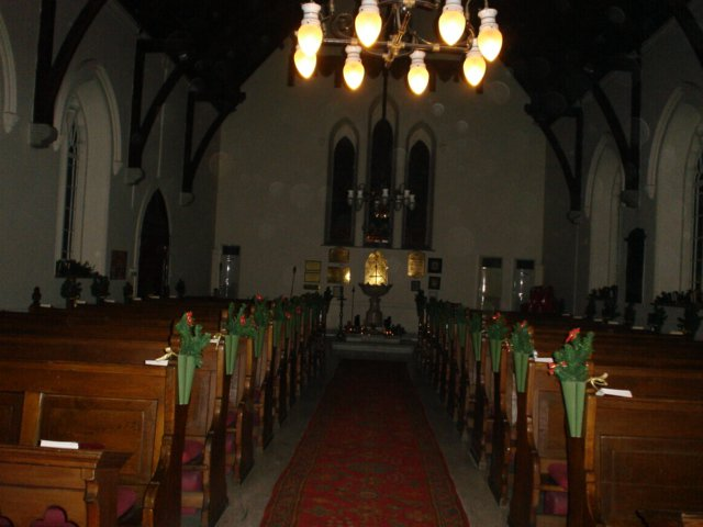 Interior of St. John the Evangelist's Church, Izmir